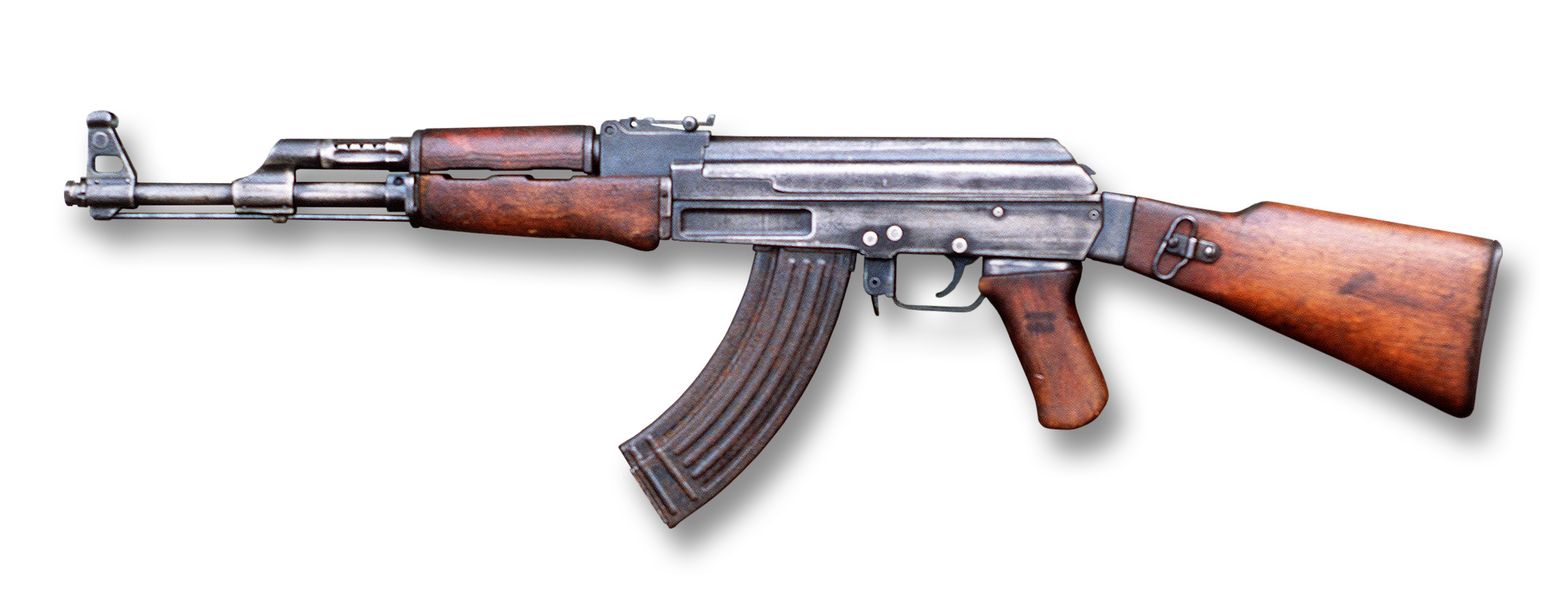 Soviet AK-47, Type 2 made from 1951 to 1954/55